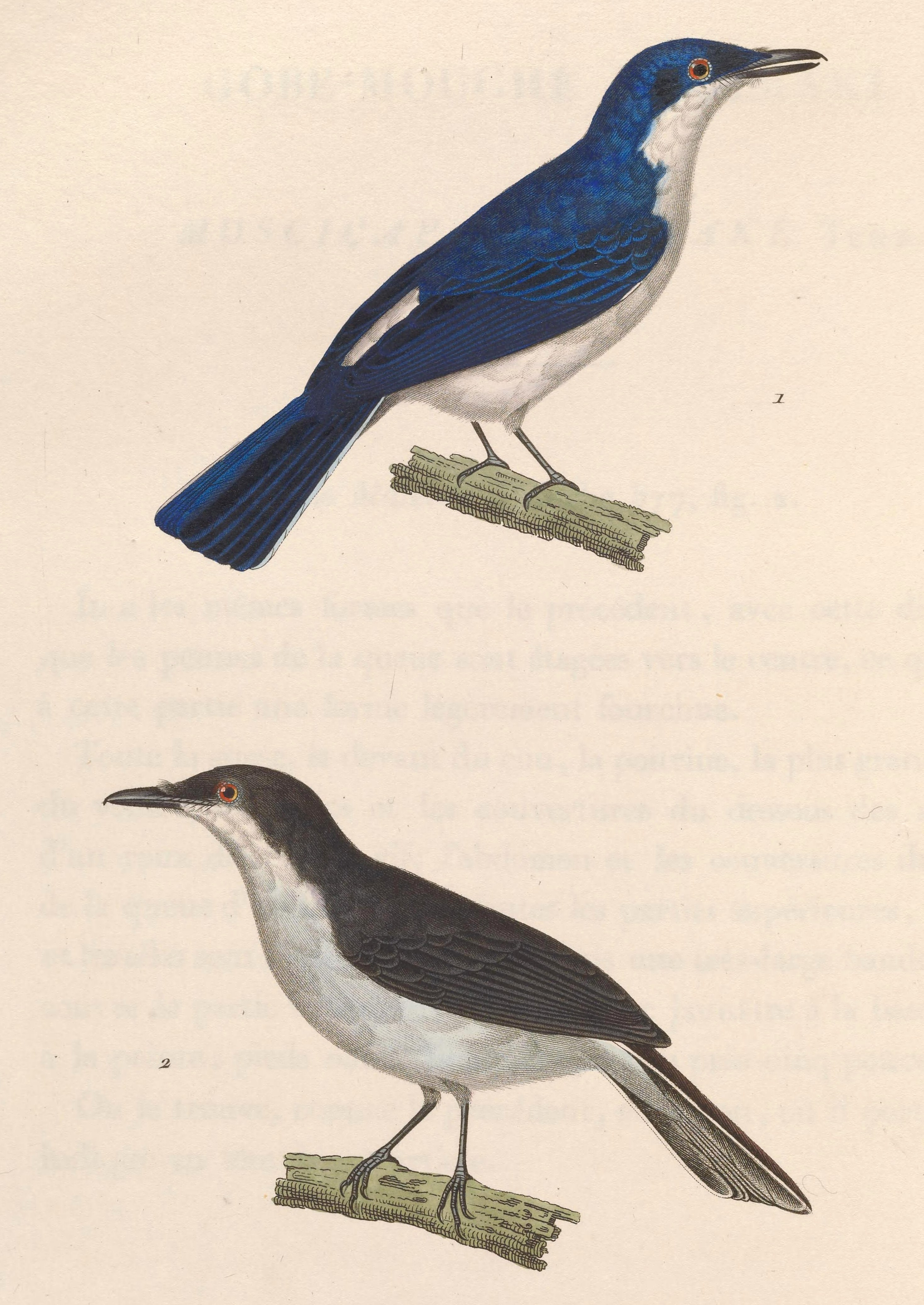 « Muscicapa hirundinacea » = Hemipus hirundinaceus (Black-winged Flycatcher-shrike) - male and female